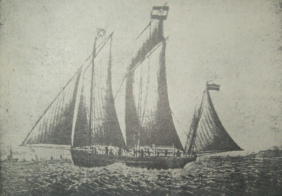 Illustration of Stefan Szolc-Rogozinski ship in magazine "Wędrowiec" ("The Wanderer")